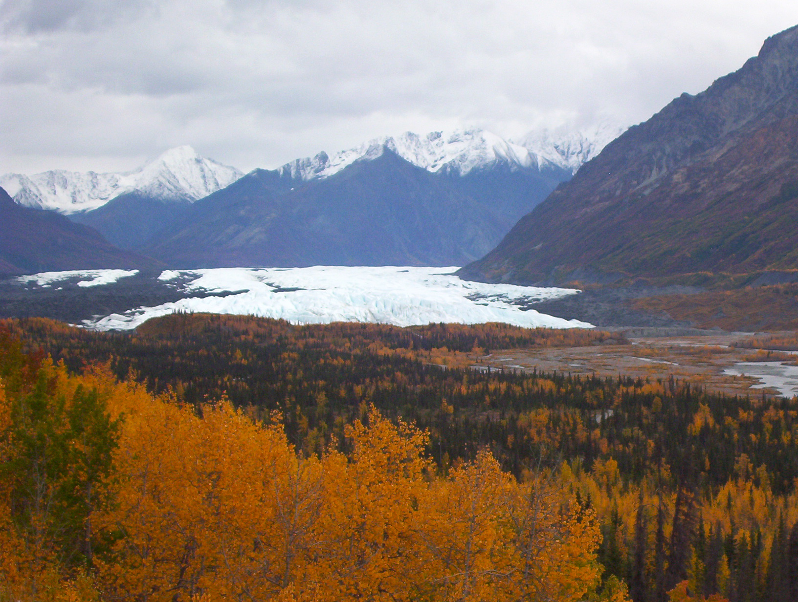 Matanuska glacier, Alaska Category:Images of Alaska